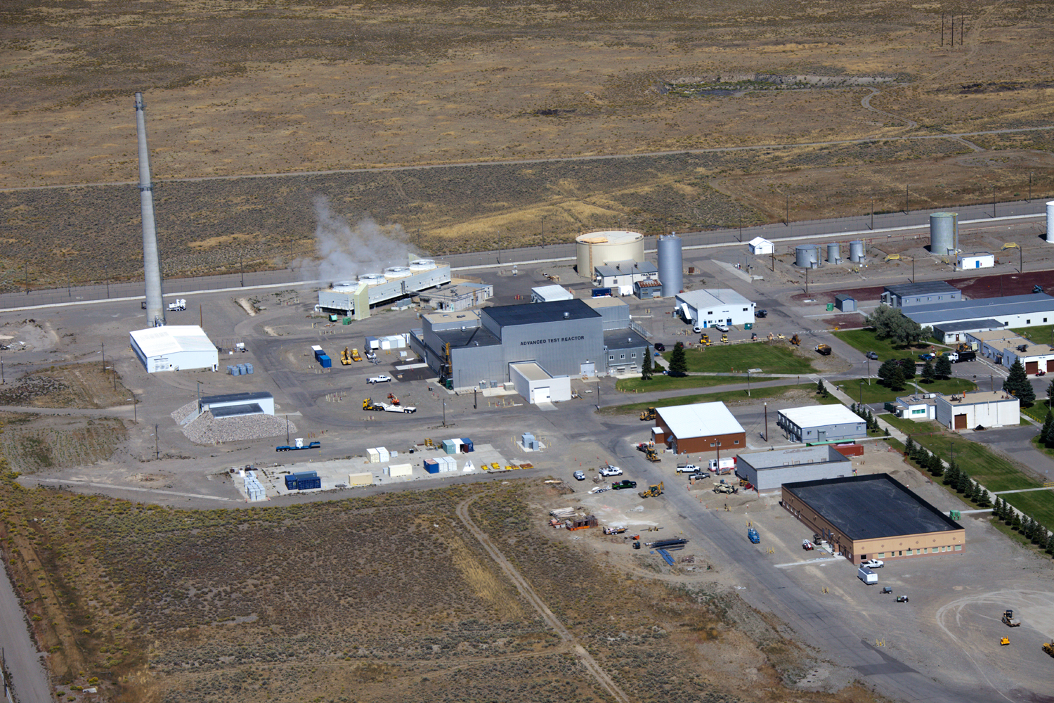 Aerial view of the Advanced Test Reactor.